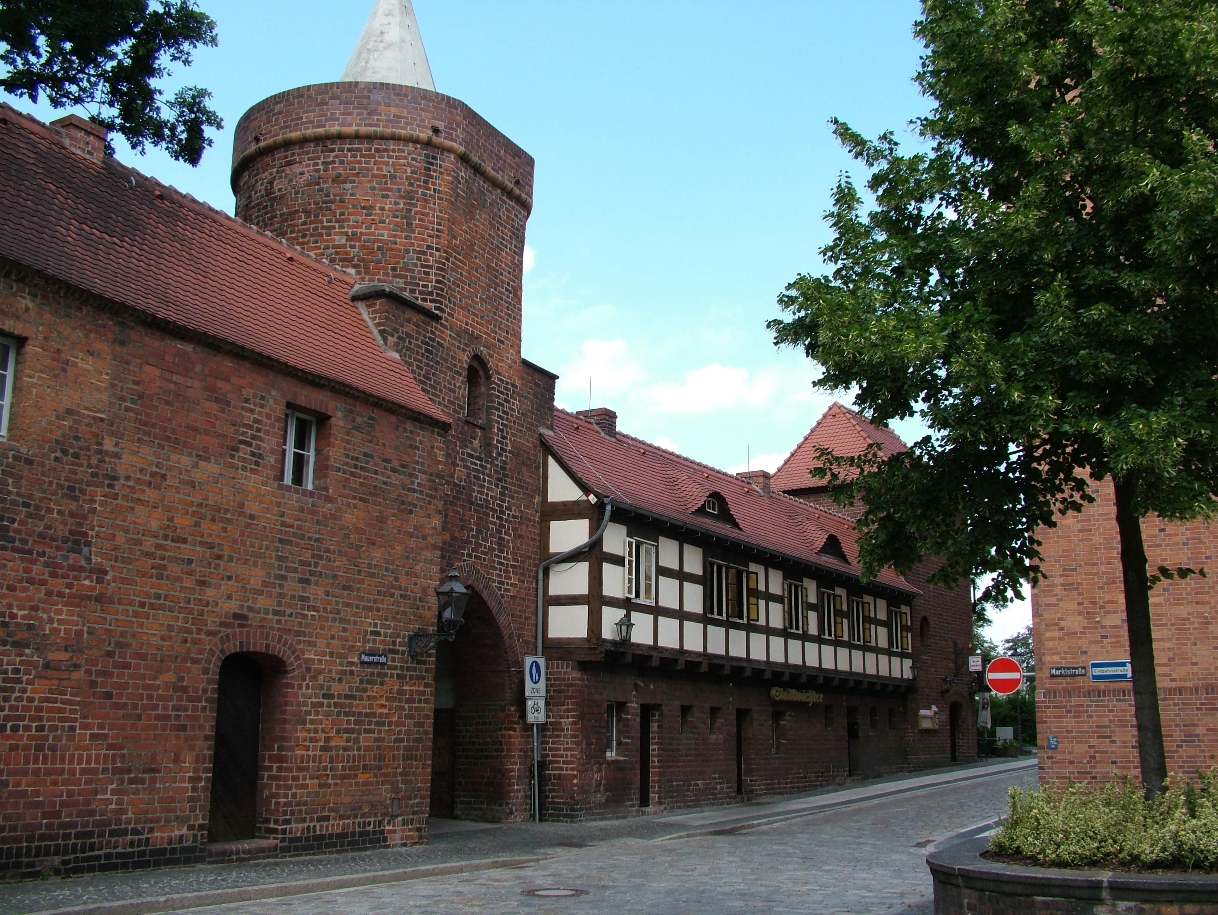 Cottbus, the wall